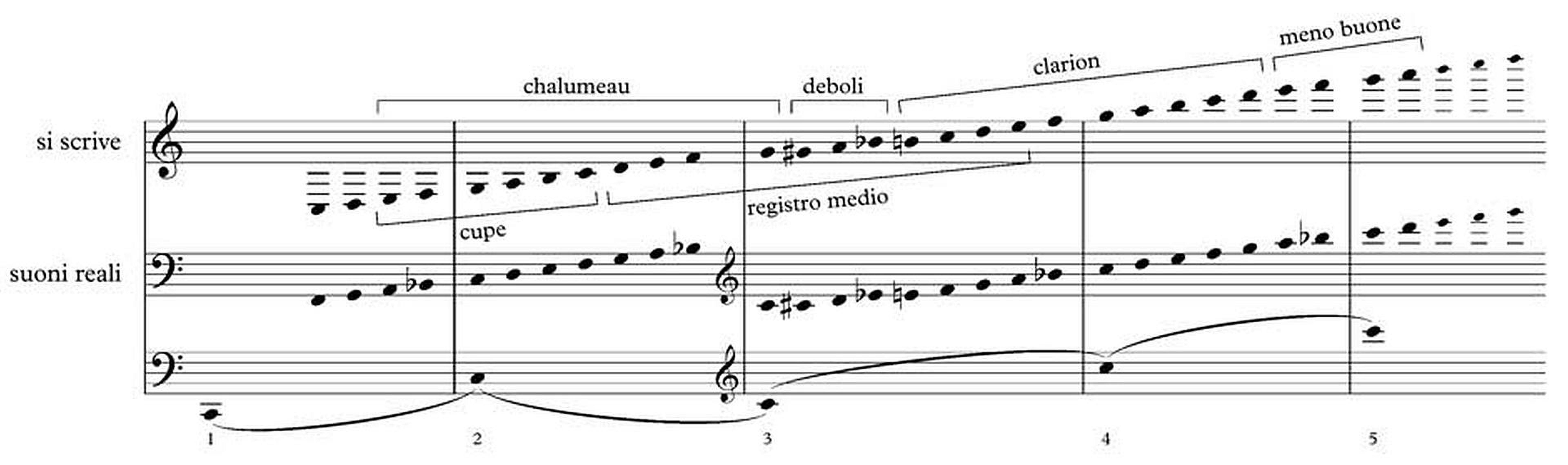 Playing range of Basset horn (corno di bassetto)